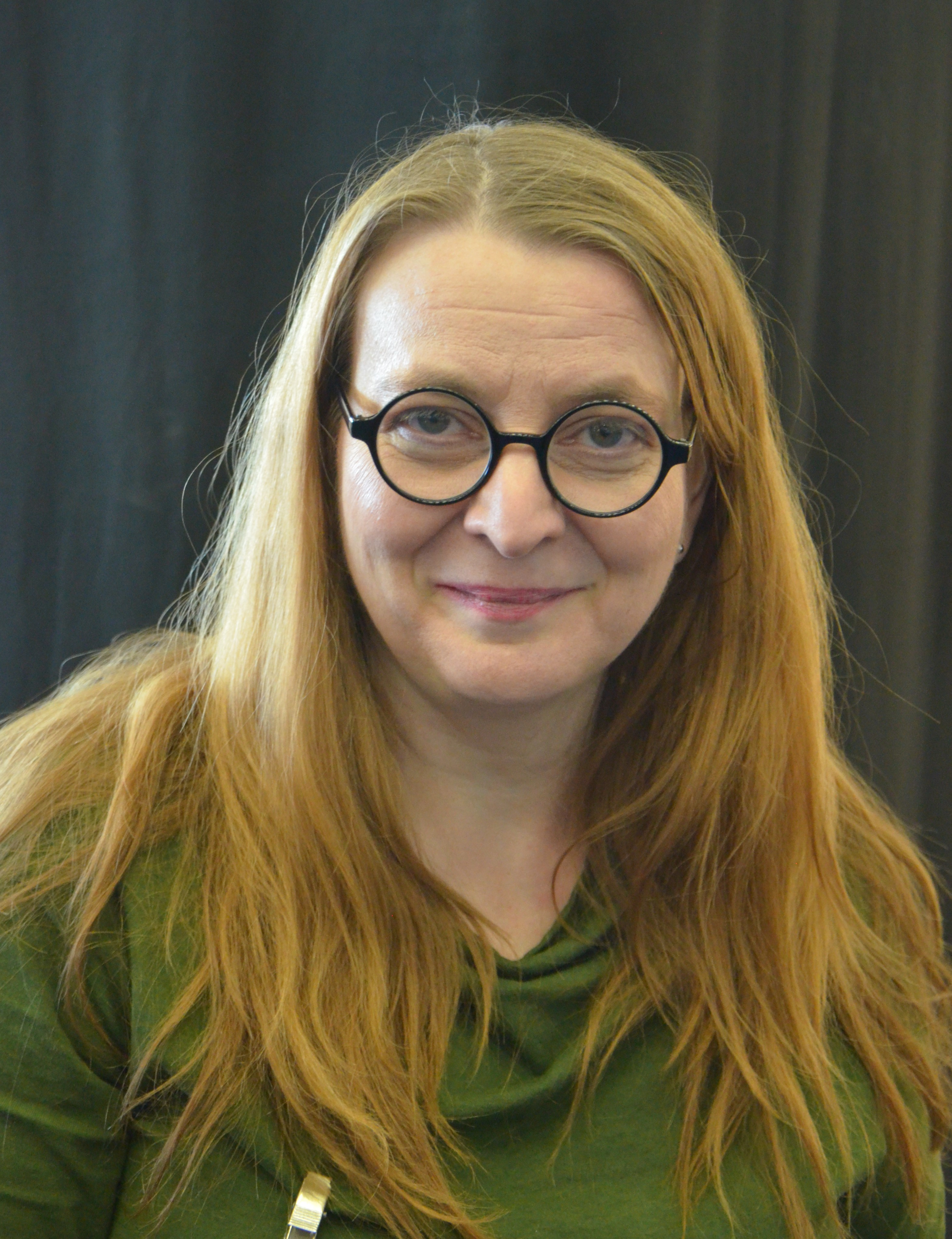 Agneta Rahikainen på Bokmässan i Helsingfors 2014